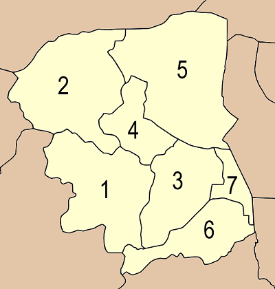 Map of the province Nakhon Pathom with the districts (Amphoe) numbered. Mueang Nakhon Pathom Kamphaeng Saen Nakhon Chai Si Don Tum Bang Len Sam Phran Phutthamonthon